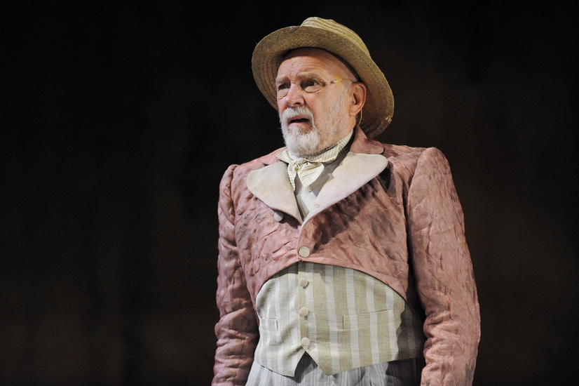 Actor Boris Ahanov, Israel